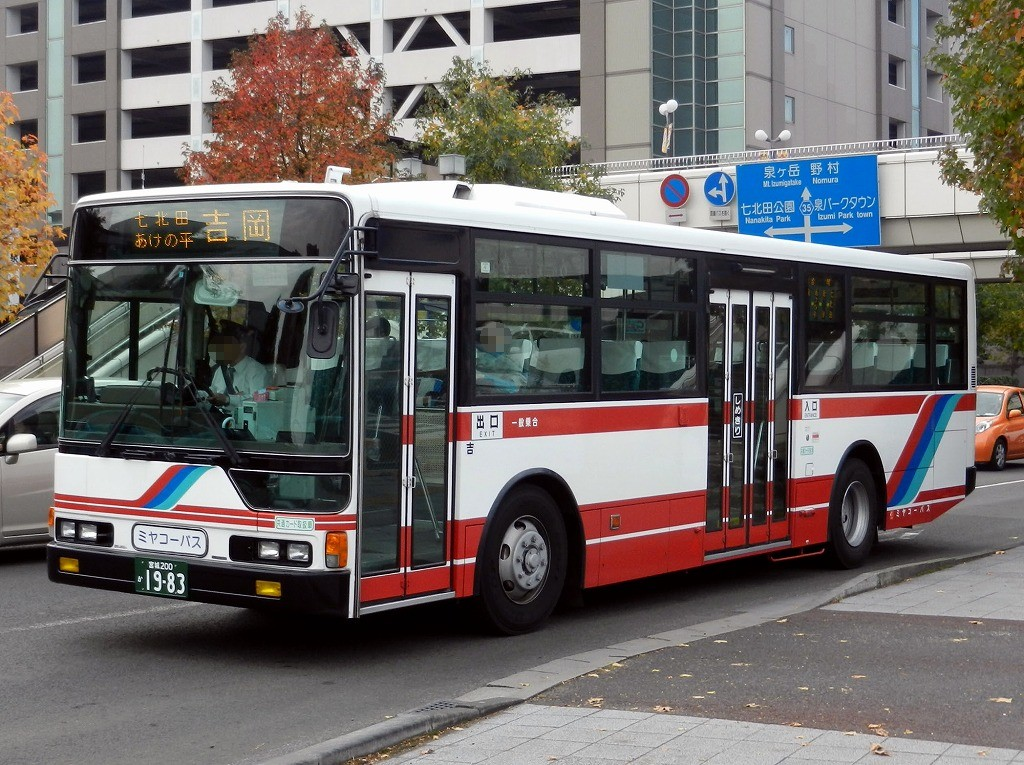 Miyakoh bus(Yoshioka office) Mitsubishi Fuso Aero Star(KC-MP717M,from Meitetsu bus)